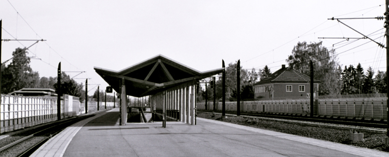 Kløfta railway station, Norway. Old station building from 1926.